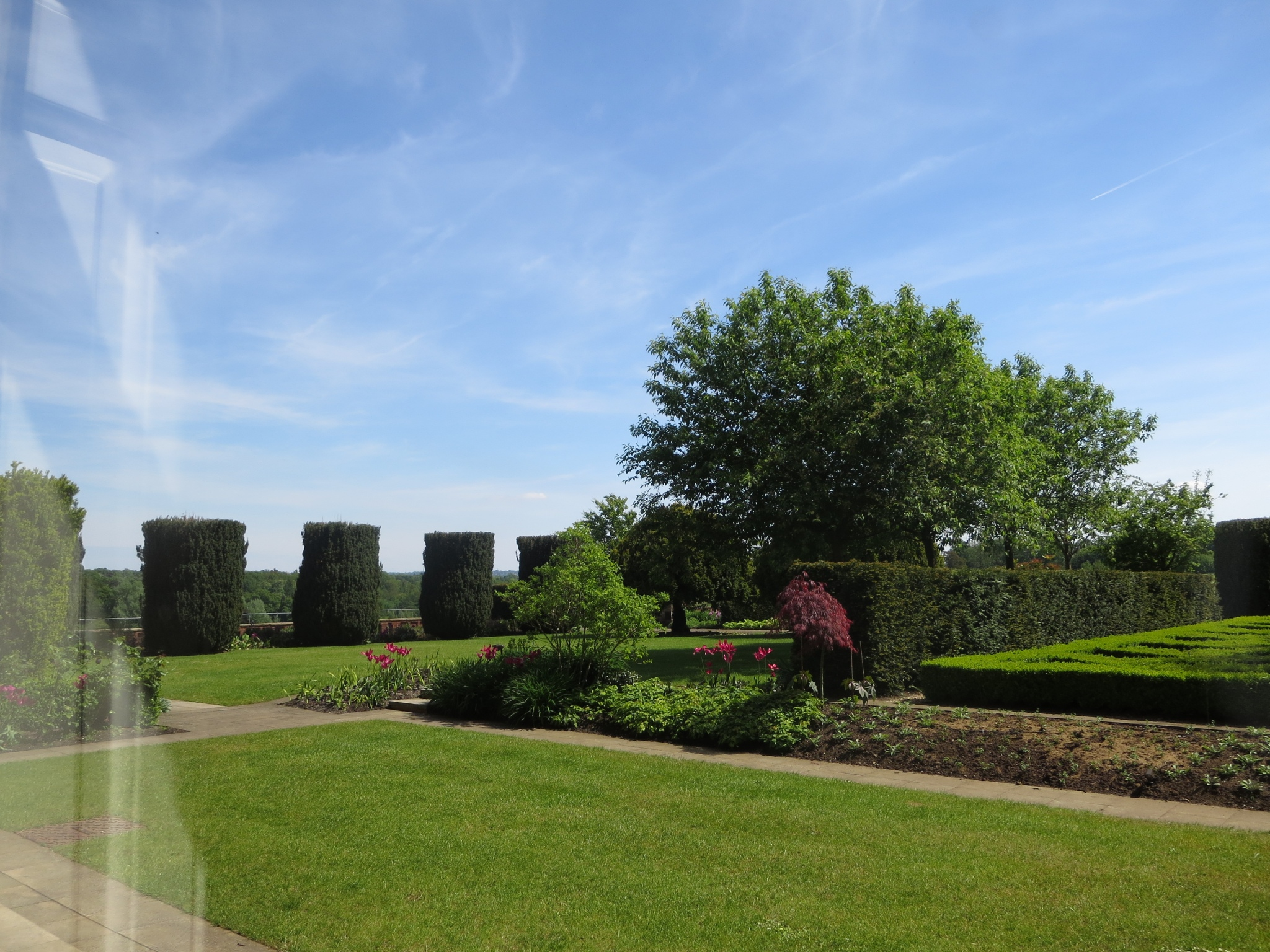 THE GROVE | Chandler's Cross, Hertfordshire